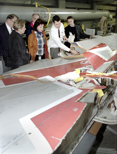 National Transportation Safety Board (NTSB) employee Brian Murphy (second from right) updates NTSB Chairman Marion Blakey (third from right) on the investigation of the tail fin and rudder from American Airlines flight 587 during her visit to Langley Research Center on Feb. 11. Also pictured are (left to right) Jim Starnes, a senior engineer in Langley’s Structures and Materials Competency; Carol Carmody, vice chairman of the NTSB; George Black of the NTSB; and David Mandell, Blakey’s counsel. Langley was selected to help in the investigation because of its expertise in composite materials.